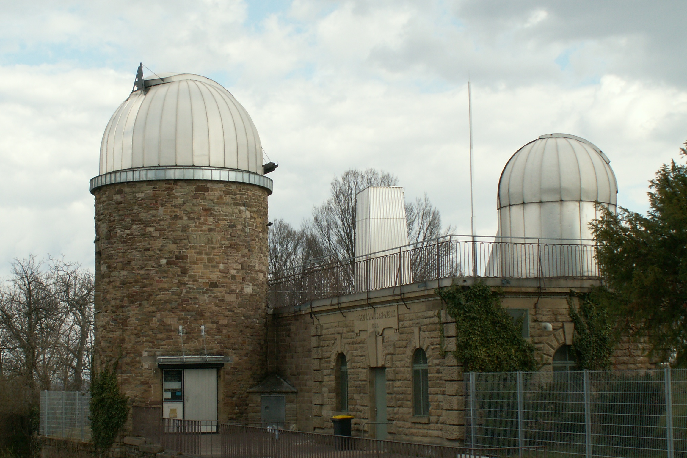 This picture shows the Observatory of Stuttgart in Germany